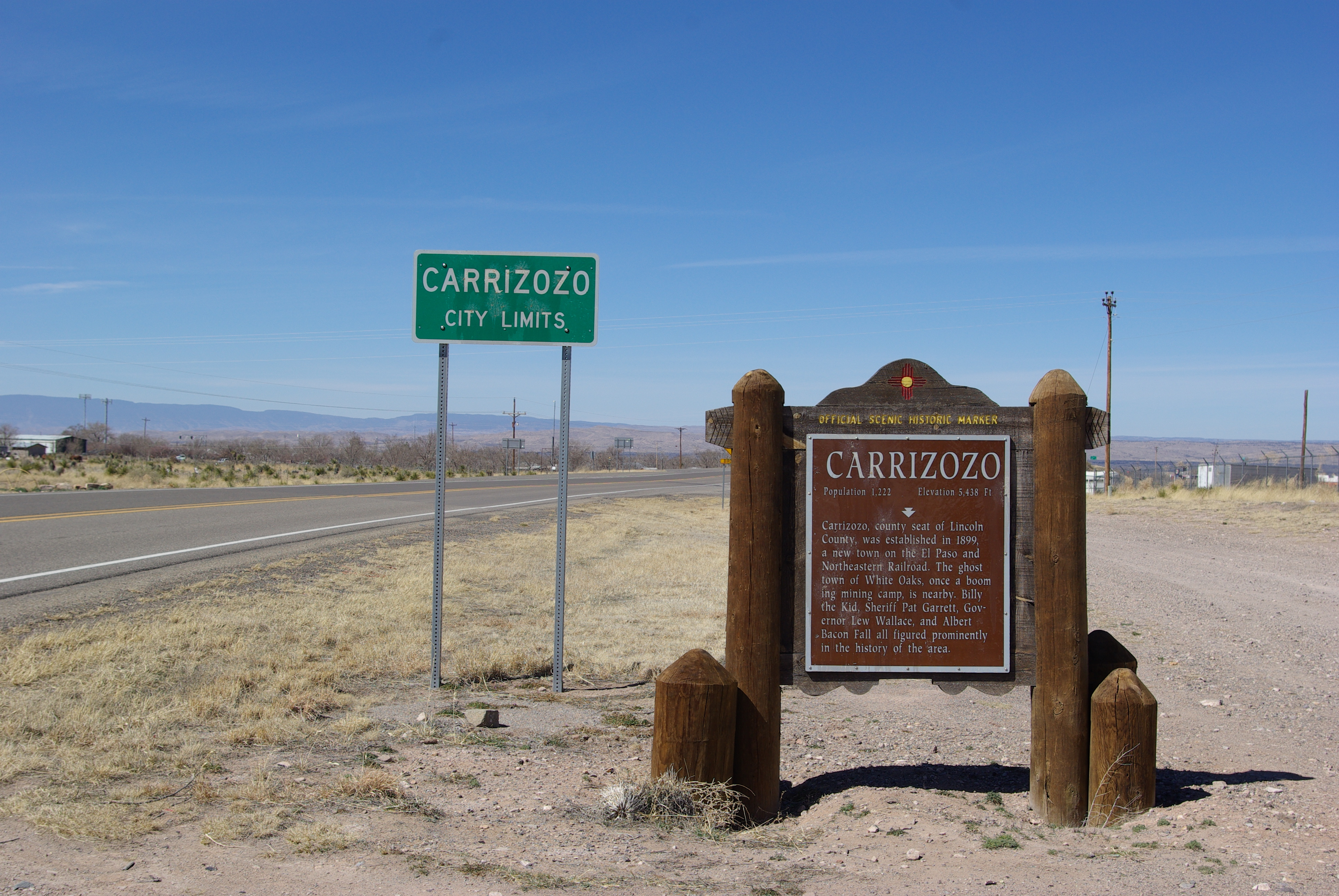 The official scenic historic marker at Carrizozo. Photographed and uploaded by user:Geographer